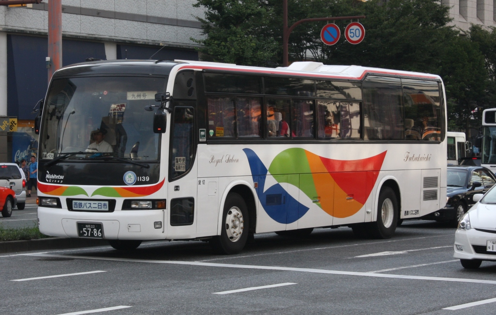 Isuzu Super Cruiser for the Kyushu-go service operated by Nishitetsu Bus Futsukaichi